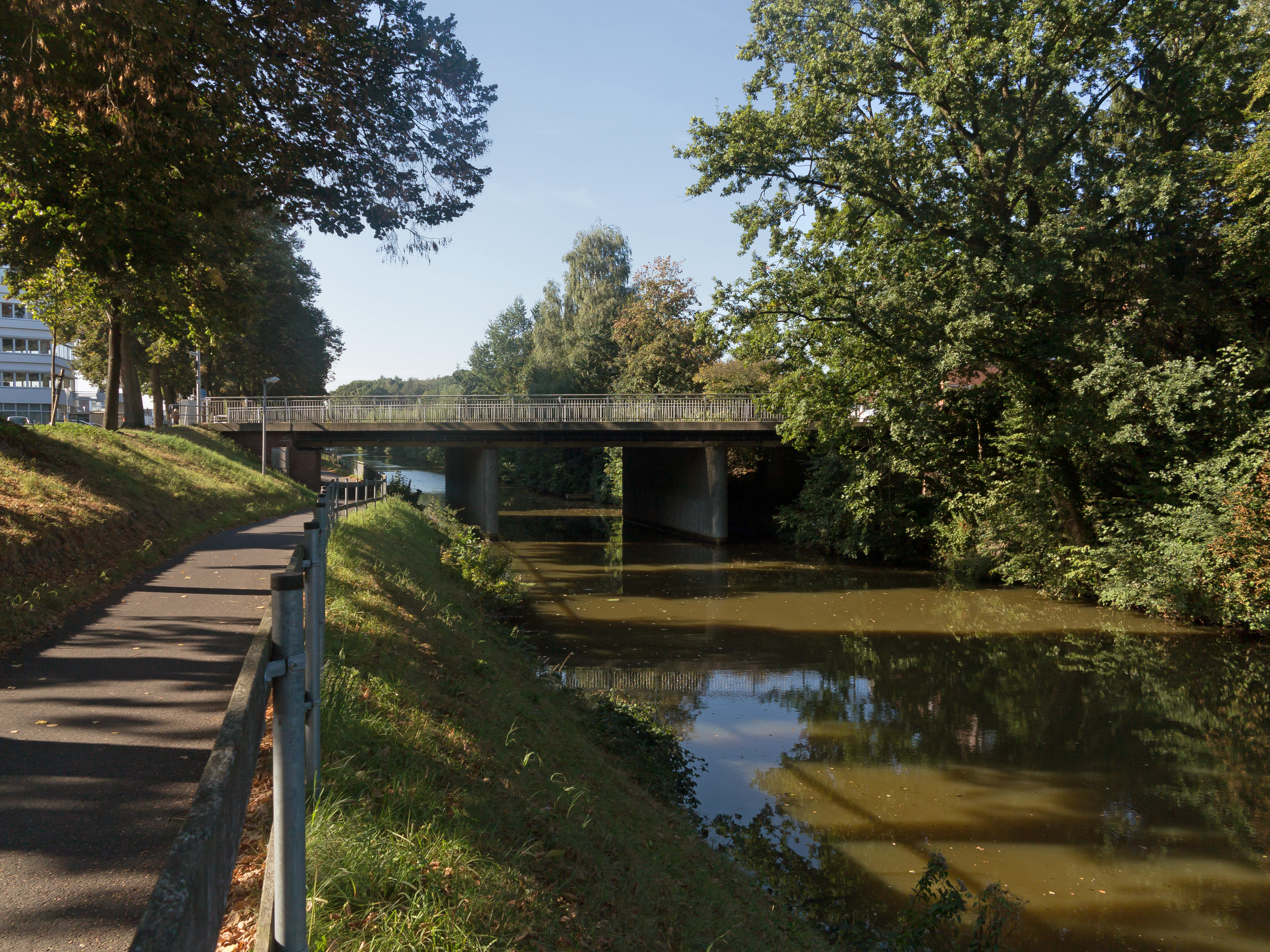 Nordhorn, hangover across Nordhorn-Almelo Kanal near Bentheimer Strasse